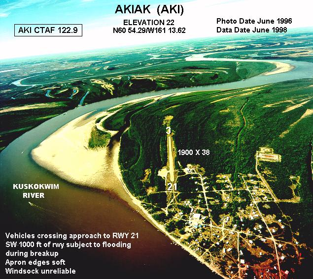 Annotated aerial photograph of Akiak Airport (FAA: AKI) in Akiak, Alaska, United States.